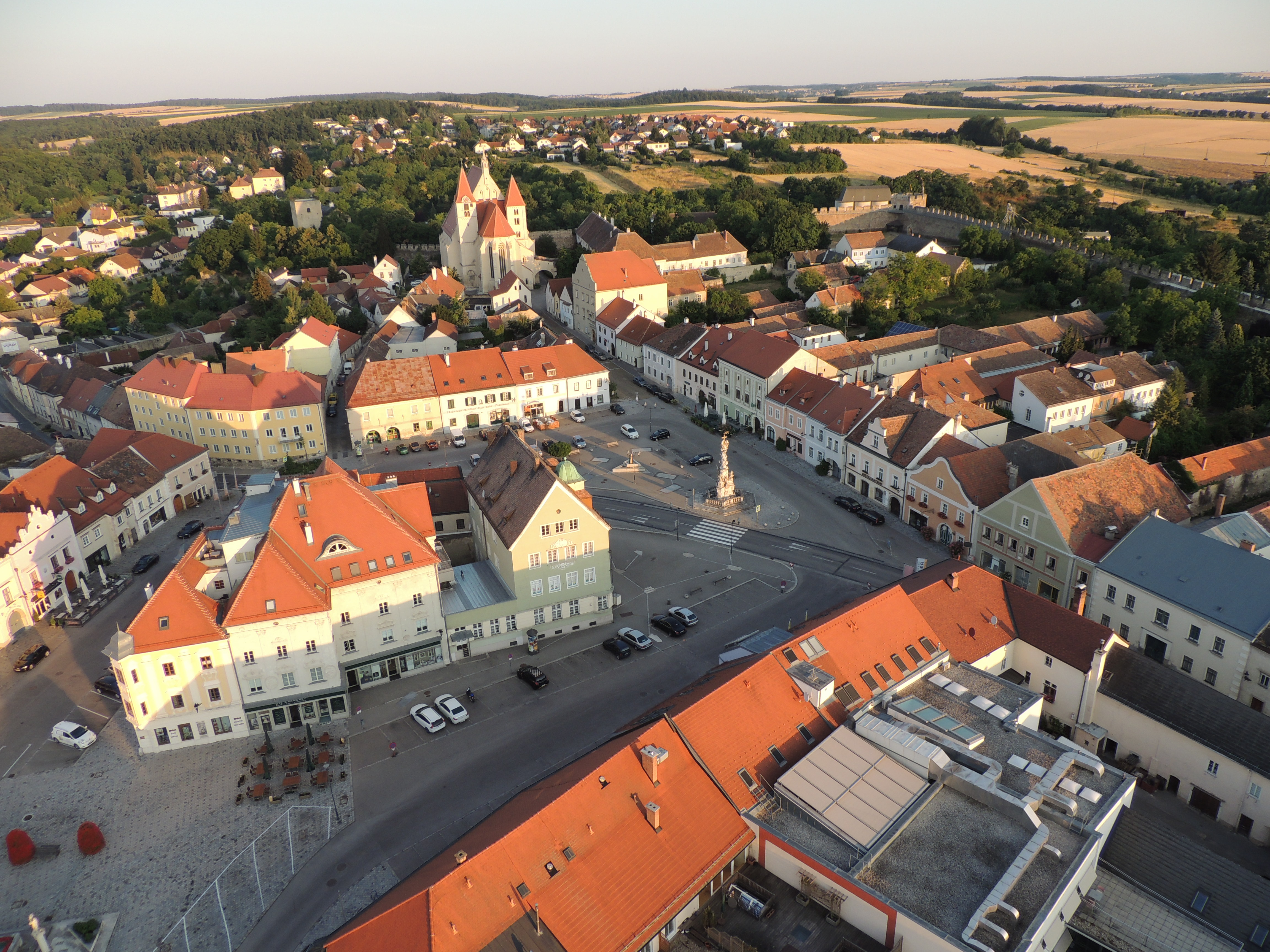 Eggenburg Center early morning view from Baloon